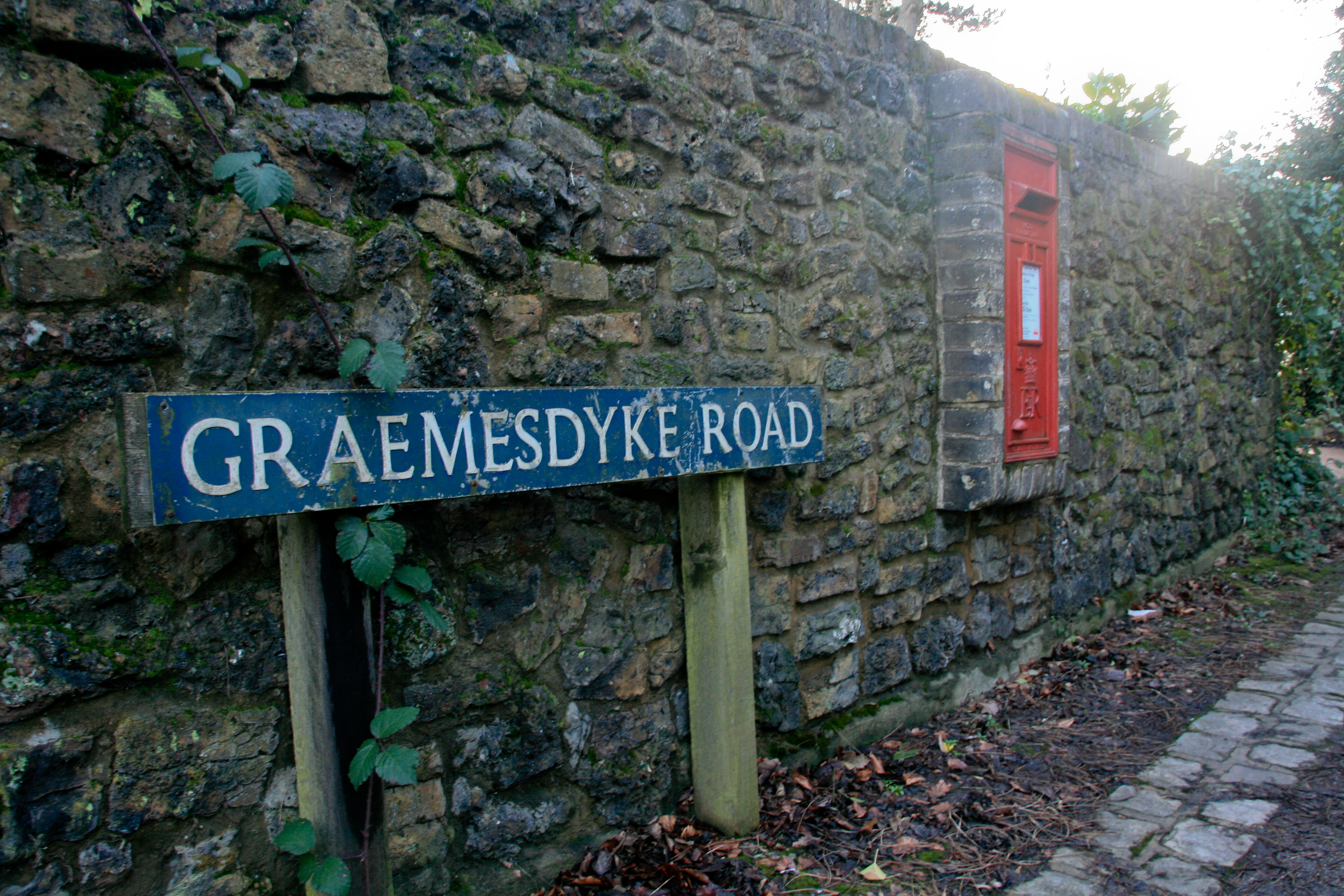 Street sign for Graemesdyke Road, Berkhamsted, Hertfrodshire, UK. The road is named after the ancient earthworks, Grim's Ditch which passes through the town